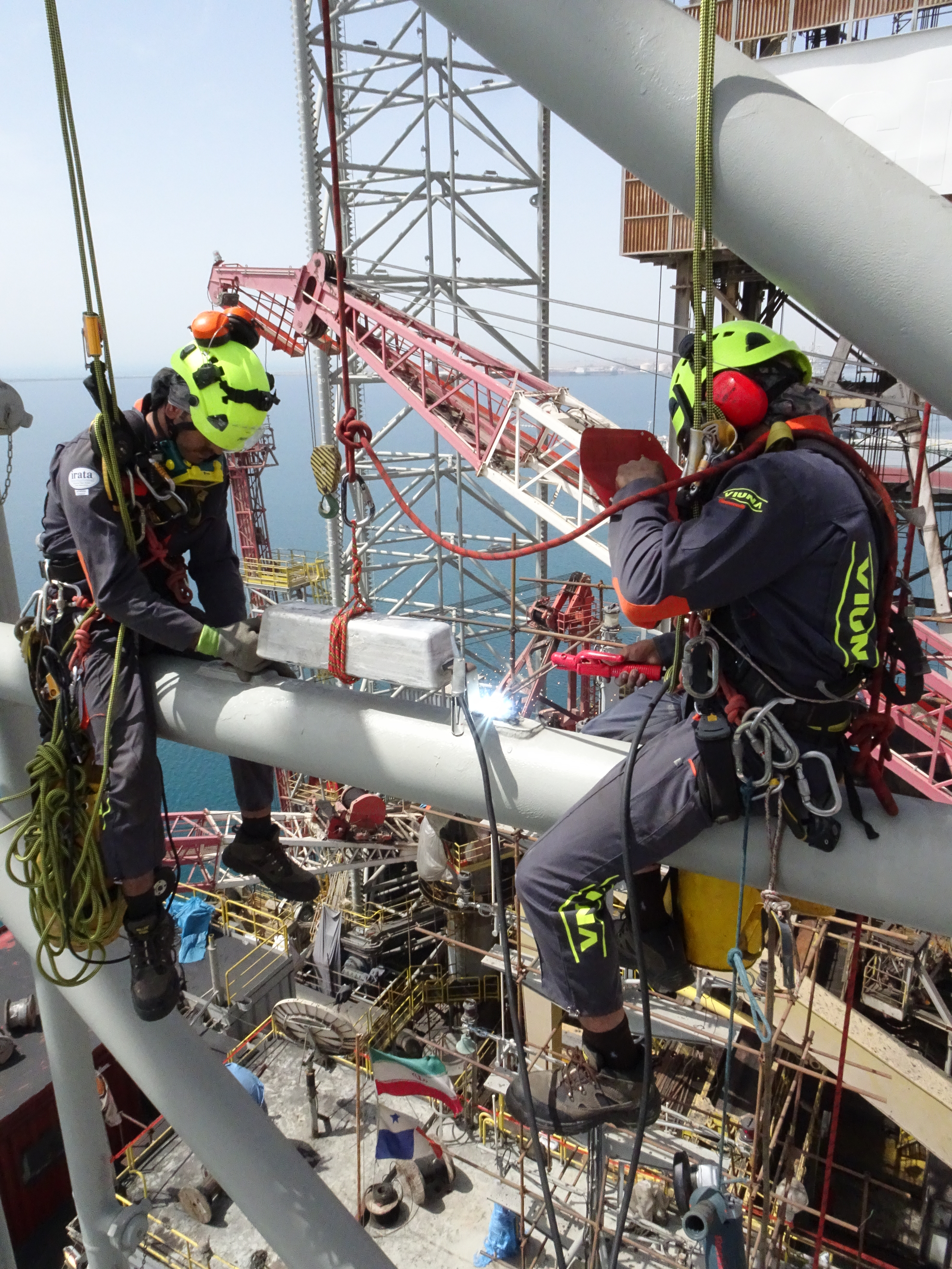 Performing repairs on oil platforms and rigs in Iran - Painting cutting brushes and ...